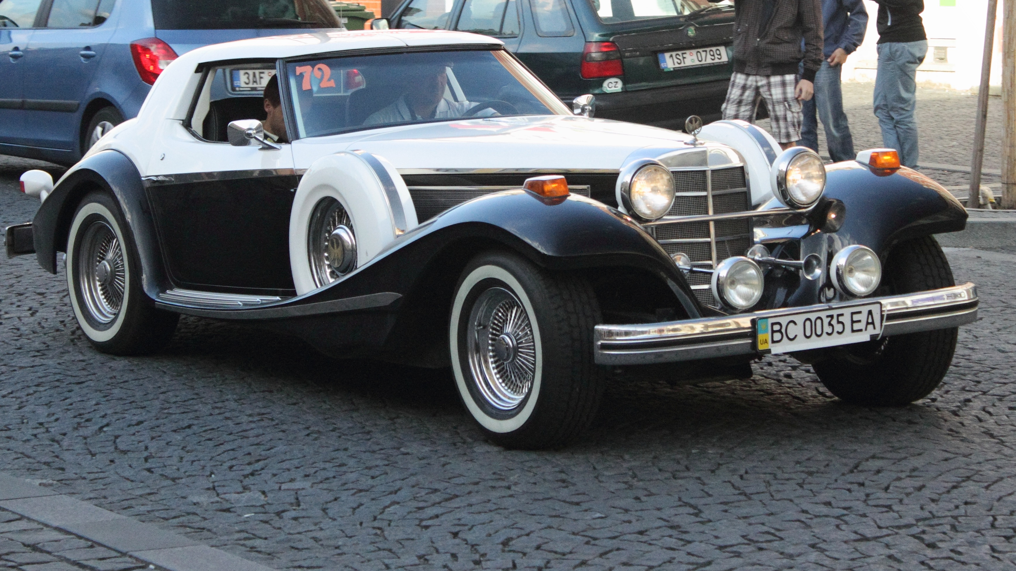 Phillips Berlina Coupe (1981), 2013 Oldtimer Bohemia Rally, Mladá Boleslav